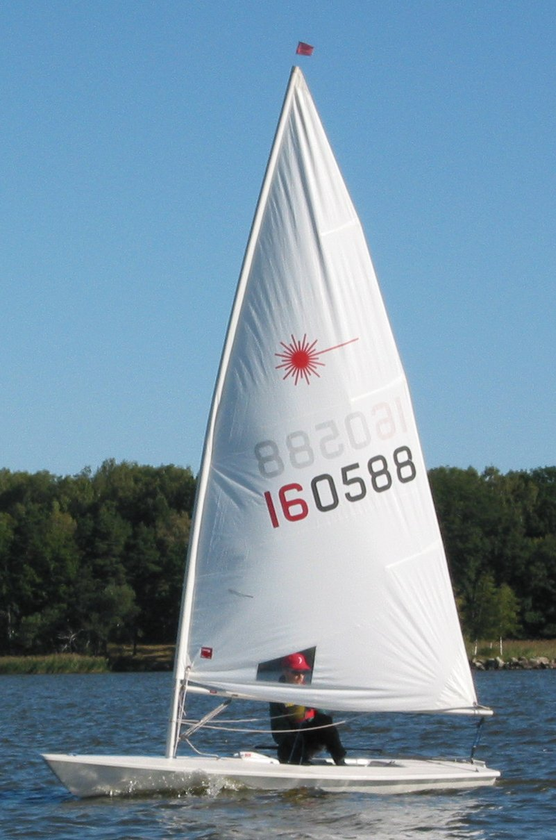 User:Etnoy in his Laser Standard dinghy #160588